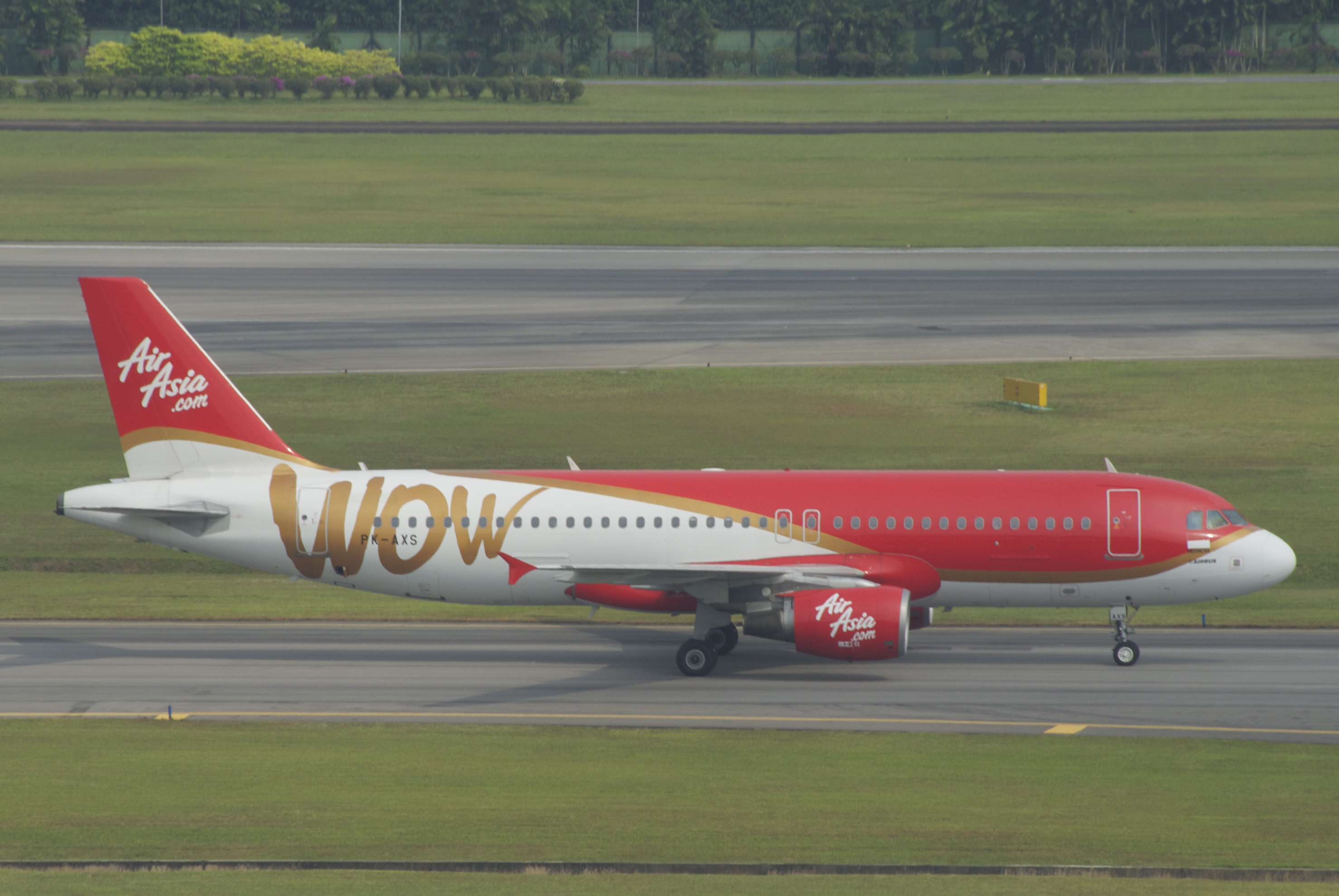 The Wow-one now flies for the Indonesian AirAsia... First flight: September 6, 2006...(c/n 2885) 28/09/2006 AirAsia 9M-AFK 10/11/2011 Indonesia AirAsia PK-AXS